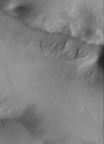 Gullies in Argyra. The location is47.23 degrees south latitude and 50.85 degrees west longitude. Image was taken with the CTX on MRO. MRO is operated by JPL. CTX is operated by Malin Space Science Systems. MRO CTX data access is provided by Arizona State University. Picture credit is Malin Space Science Systems/NASA.